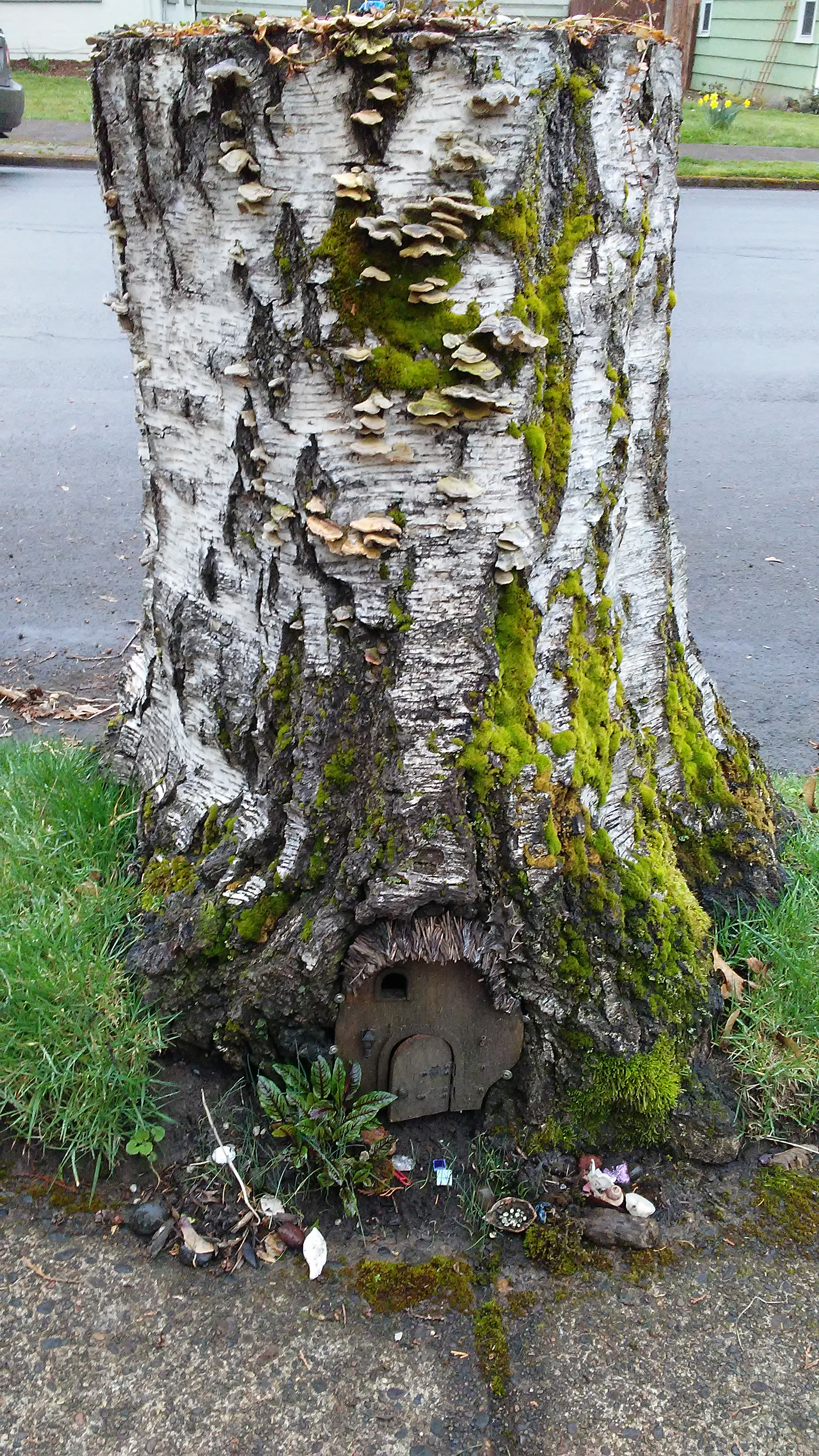 Fairy door found in a little neighborhood in Corvallis, Oregon, United States